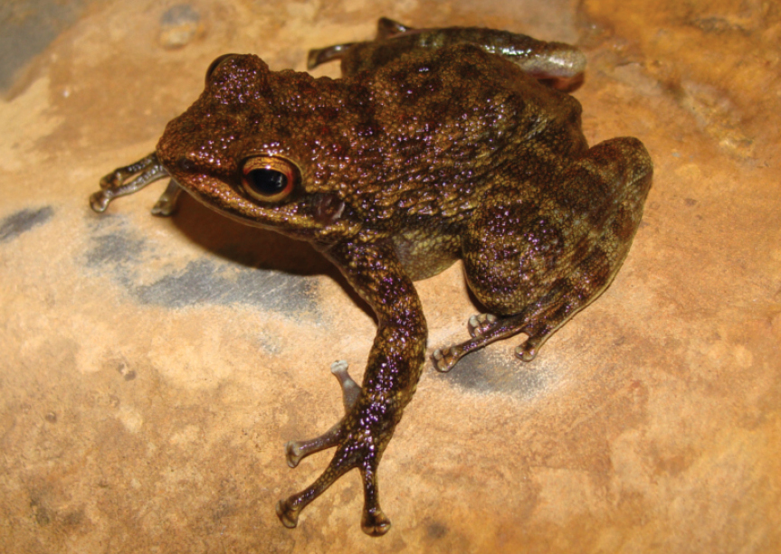 Odontobatrachus smithi in life: a) male ZMB 78307, Kindia Region, Guinea; b) female paratype MHNG 2731.47, Fouta Djallon: Pita, Hörè Binti, Guinea); c) colouration of femoral glands in ZMB 78307; d) ventral view of female paratype MHNG 2731.47.